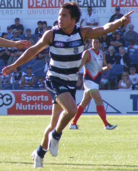 Mathew Stokes (born 22 November 1984) is an Australian rules footballer